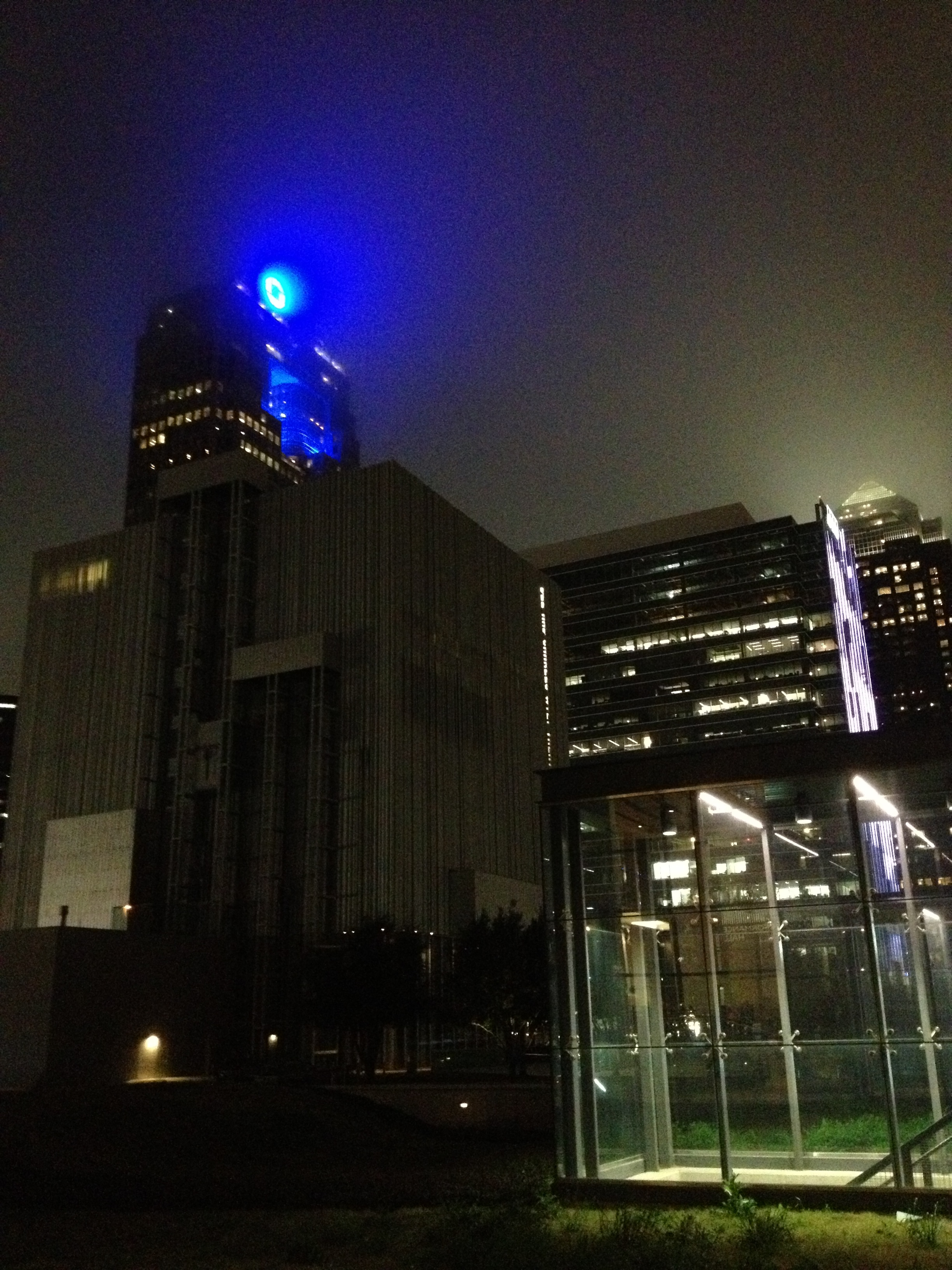 The east and north walls of the Wyly Theatre.